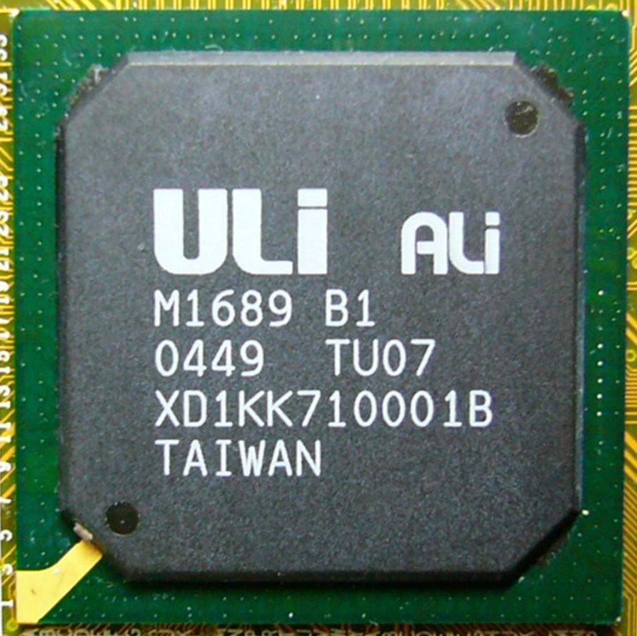 ULi M1689 K8 Chipset